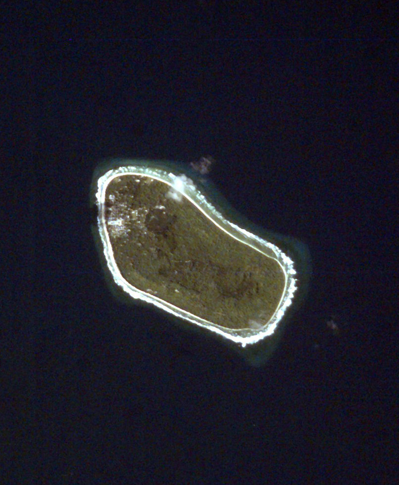 NASA astronaut image of Niutao Island, Ellice Islands, Tuvalu